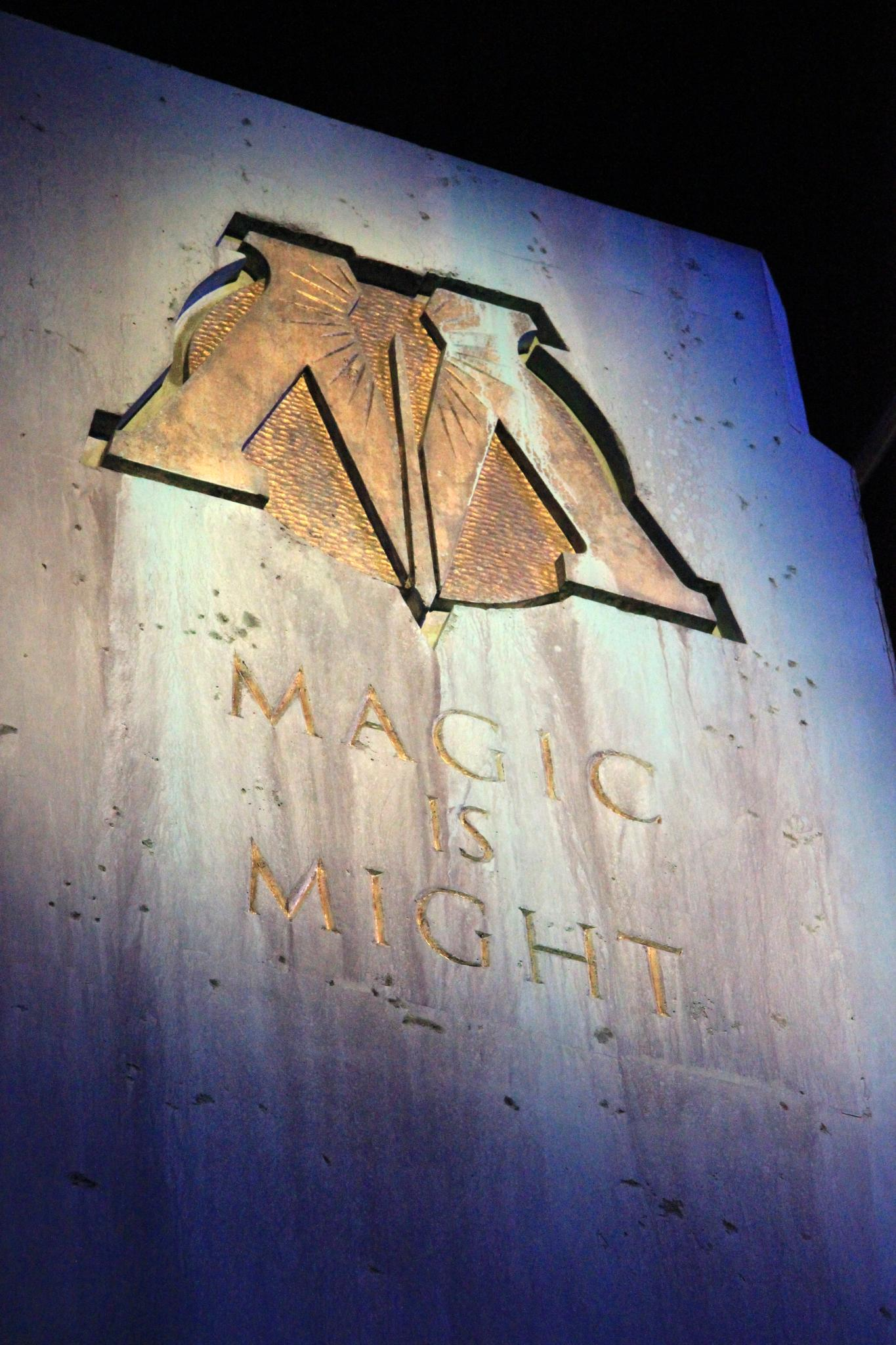 Warner Bros. Studio Tour London: The Making of Harry Potter.